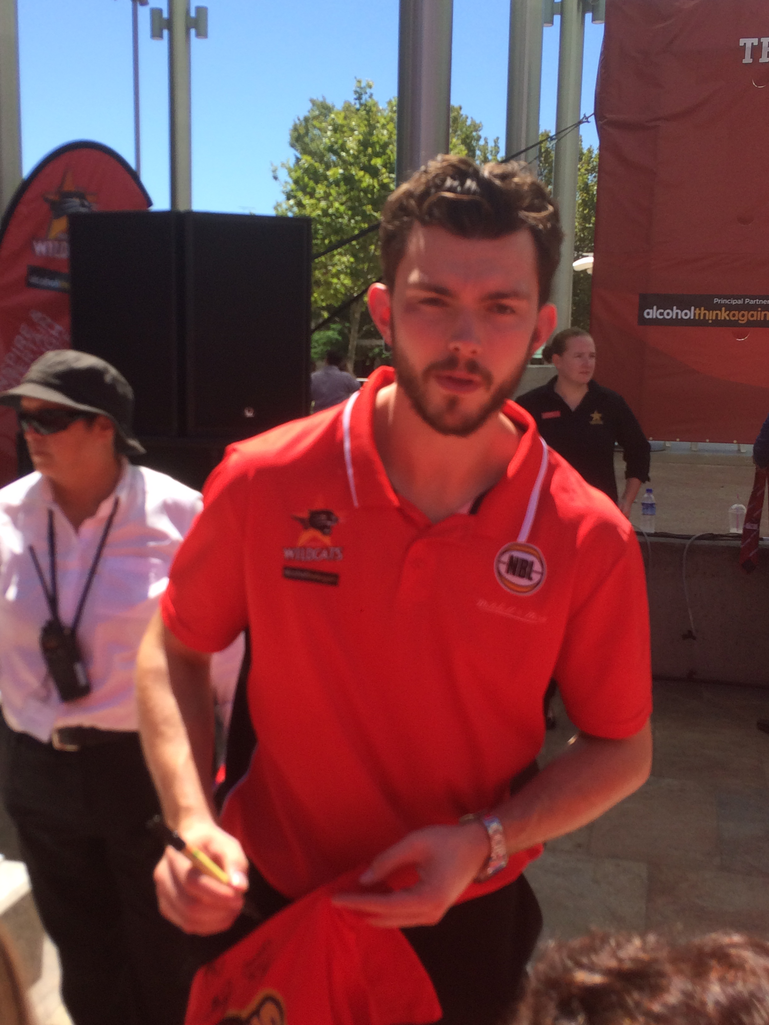 Angus Brandt at the Perth Wildcats' 2017 championship celebration